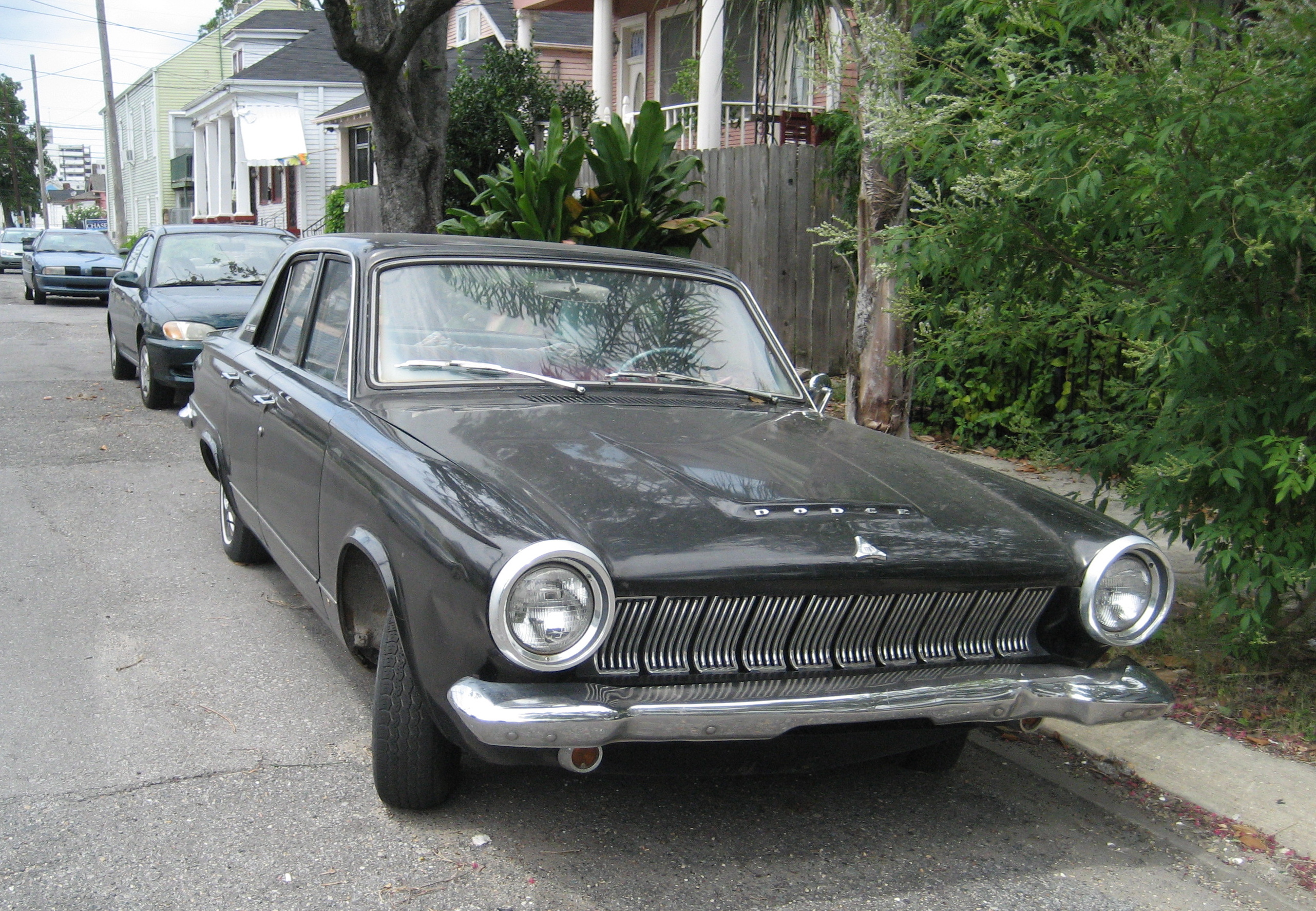 1963 Dodge Dart One Seventy, parked on street in Freret neighborhood of Uptown New Orleans